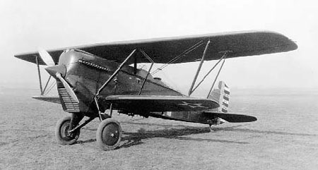 The Boeing XP-7 was a modification of the last production Boeing PW-9D. It was first flown in November 1928. The performance of the XP-7 did not warrant production and the XP-7 was re-engined with a Curtiss D-12, converting it back to a PW-9D.